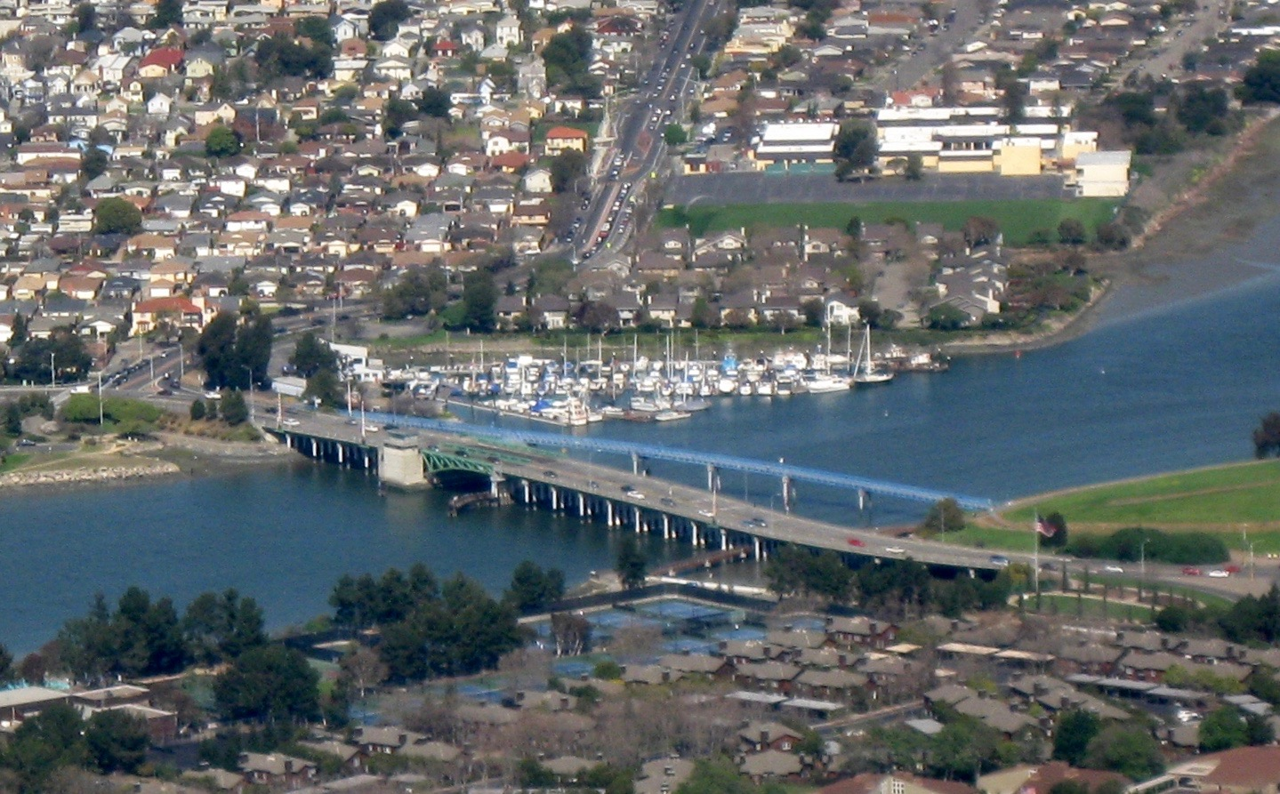 Aerial photo, from the southwest, of Bay Farm Island Bridge, a 1953 single-leaf bascule bridge crossing San Leandro Channel from Bay Farm Island (bottom) to Alameda Island (top) in Oakland, California.